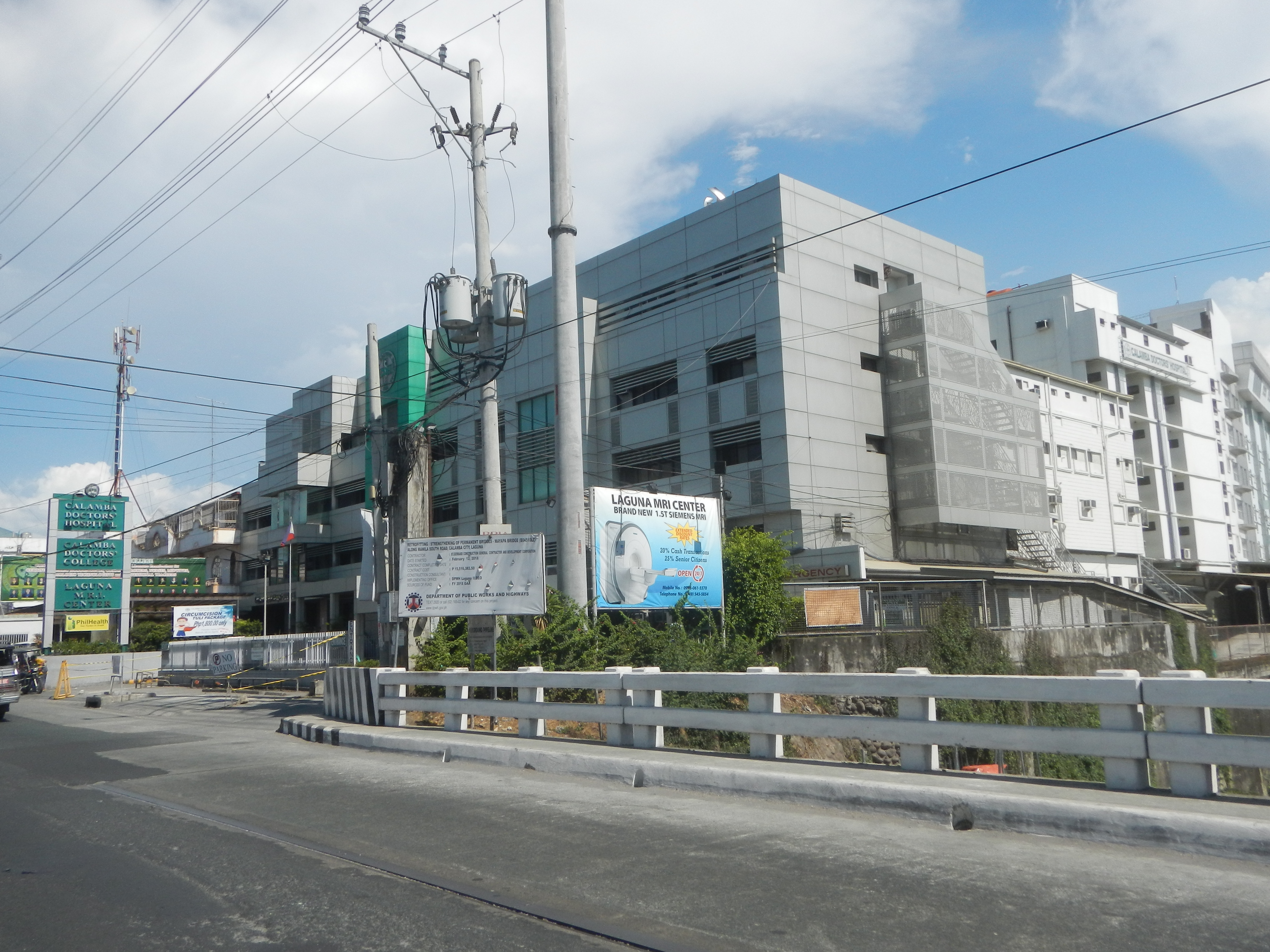 Mayapa Bridge (San Juan River Calamba, Manila South Road) San Juan River (Calamba) Calamba Doctor's Hospital and College (Manila South Road, Parian, Calamba City) Calamba Doctors' Hospital Calamba Doctors' College National Highway (Calamba Poblacion-Mayapa) of Maharlika Highway (Calamba City section) Pan-Philippine Highway; in Barangays Paciano Rizal, Calamba, Parian, Calamba, Parian 14°12'53"N 121°8'55"E Calamba, Laguna from Calamba Poblacion Hall 14°12'54"N 121°8'5"E (Note: Judge Florentino Floro, the owner, to repeat, Donor Florentino Floro of all these photos hereby donate gratuitously, freely and unconditionally Judge Floro all these photos to and for Wikimedia Commons, exclusively, for public use of the public domain, and again without any condition whatsoever).